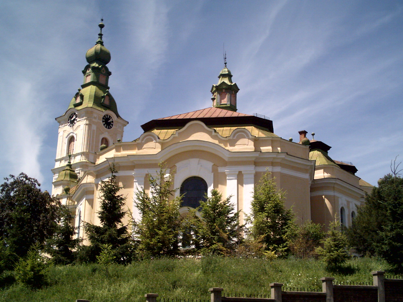 Calvinist Cathedral in Zalau Made by Morar Tamás and Balázs Szilárd ( , )